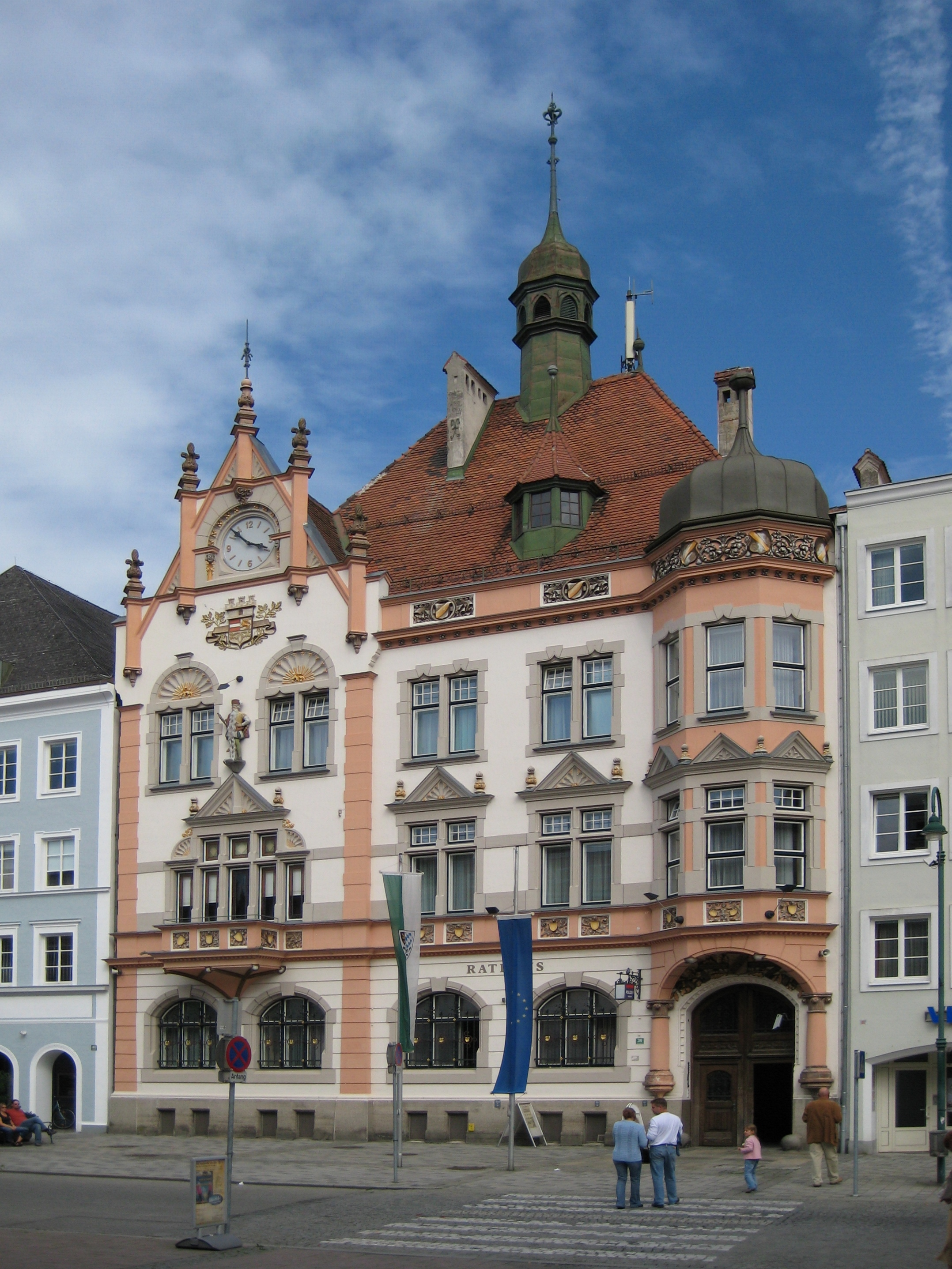 Town hall of Braunau am Inn, built in 1902-03 after a project by Josef Schubauer.